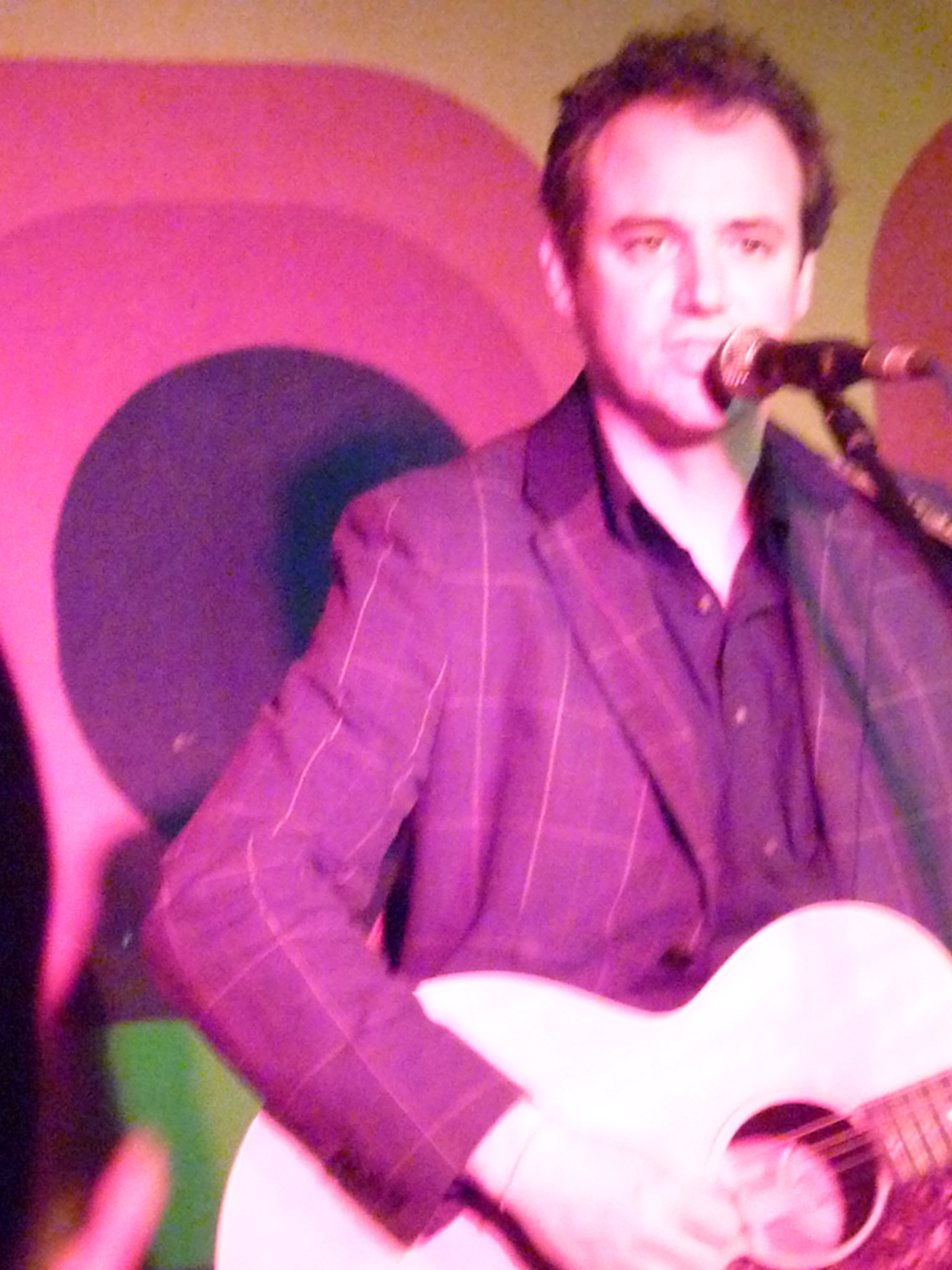 Pierre de Gaillande onstage at kafe Kairo in Bern, Switzerland.